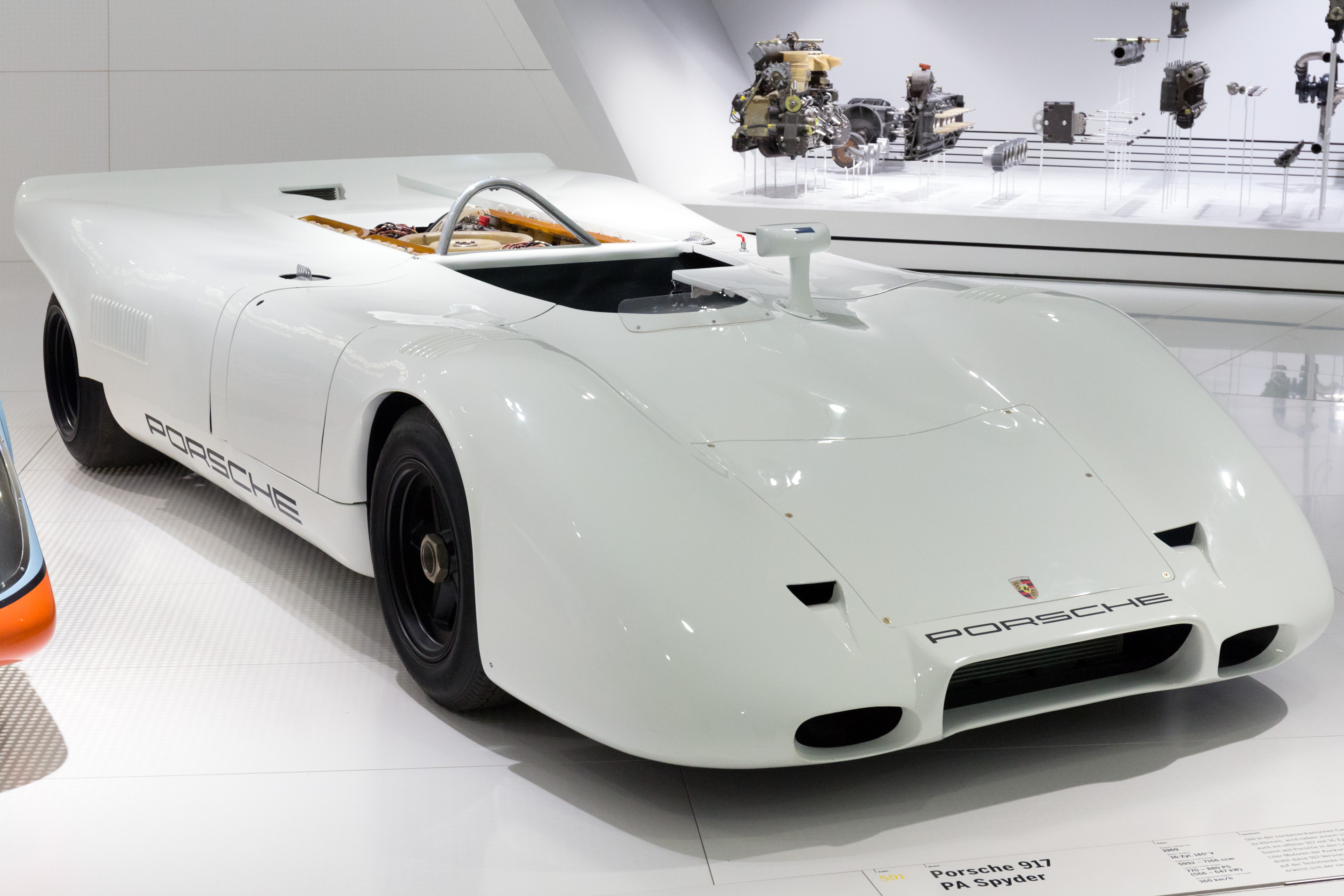 1970 Porsche 917 PA Spyder (917/16, 16-cylinder prototype)